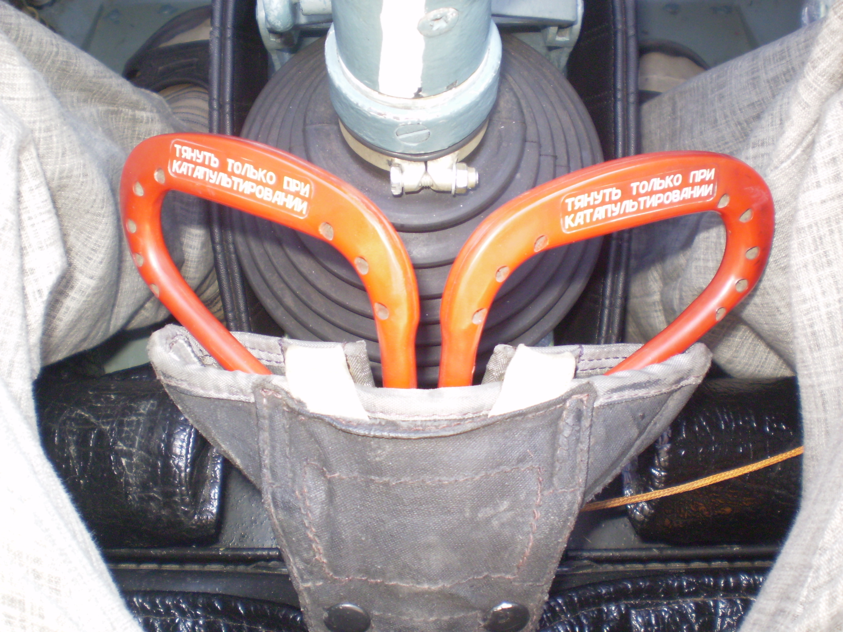 Action lever of the K-36D ejector seat.